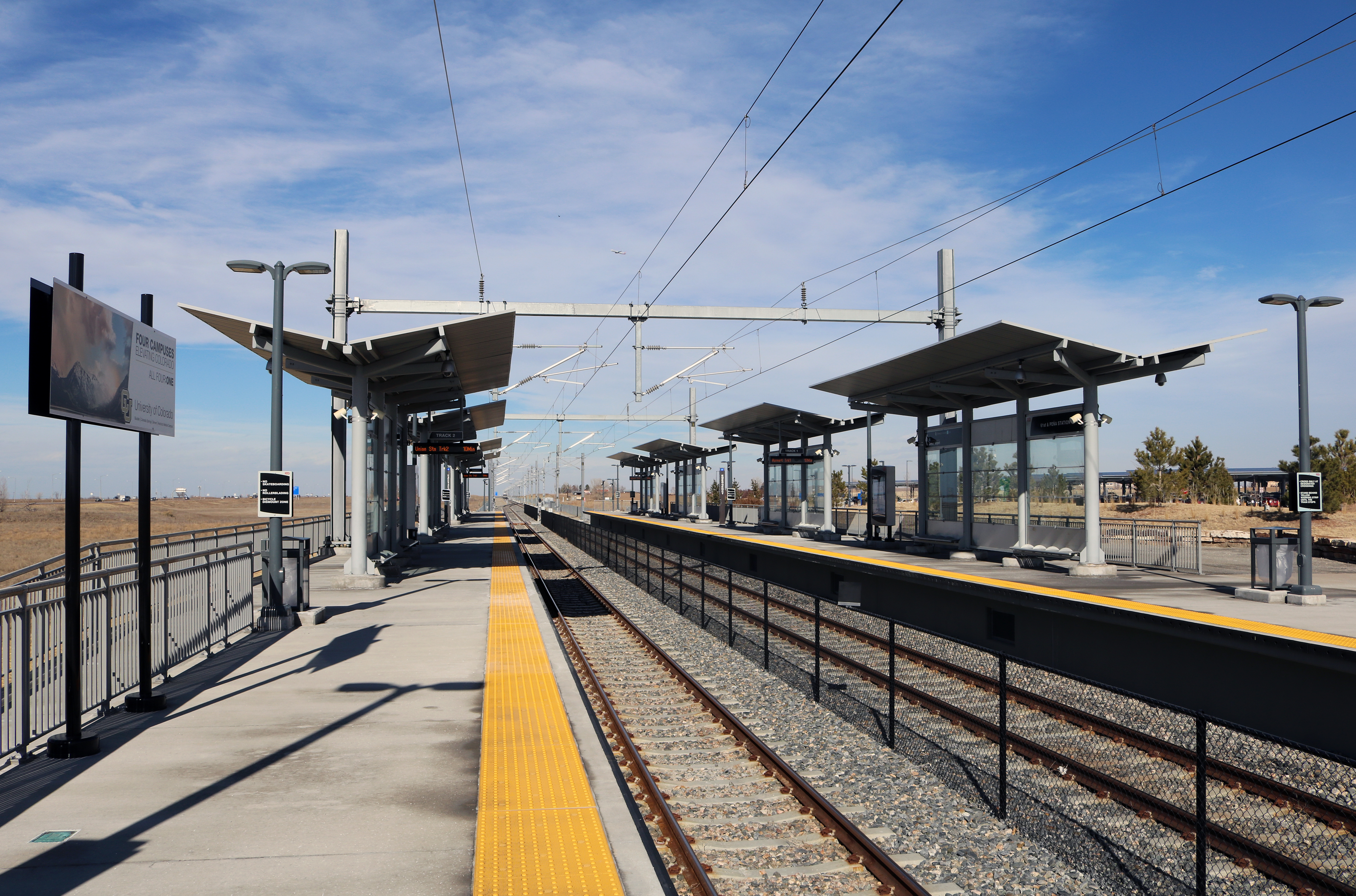 The RTD A-Line 61st & Peña station, located at 6045 N. Richfield Street in Denver, Colorado. In the distance on the left, one can see cars traveling on Peña Boulevard.